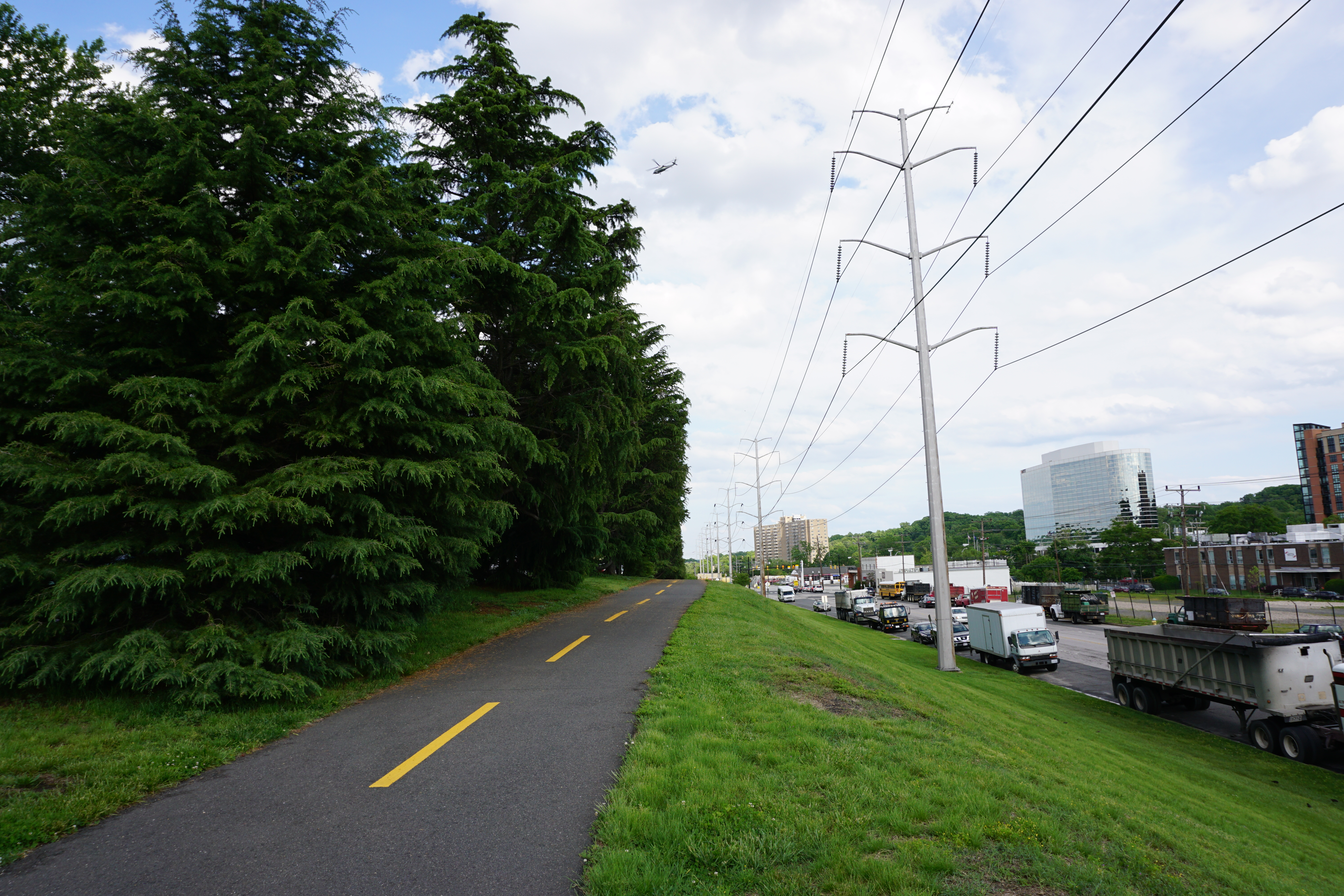 Looking east along Washington and Old Dominion Trail near Court D, South Four Mile Run Drive, Arlington, Virginia 22206.